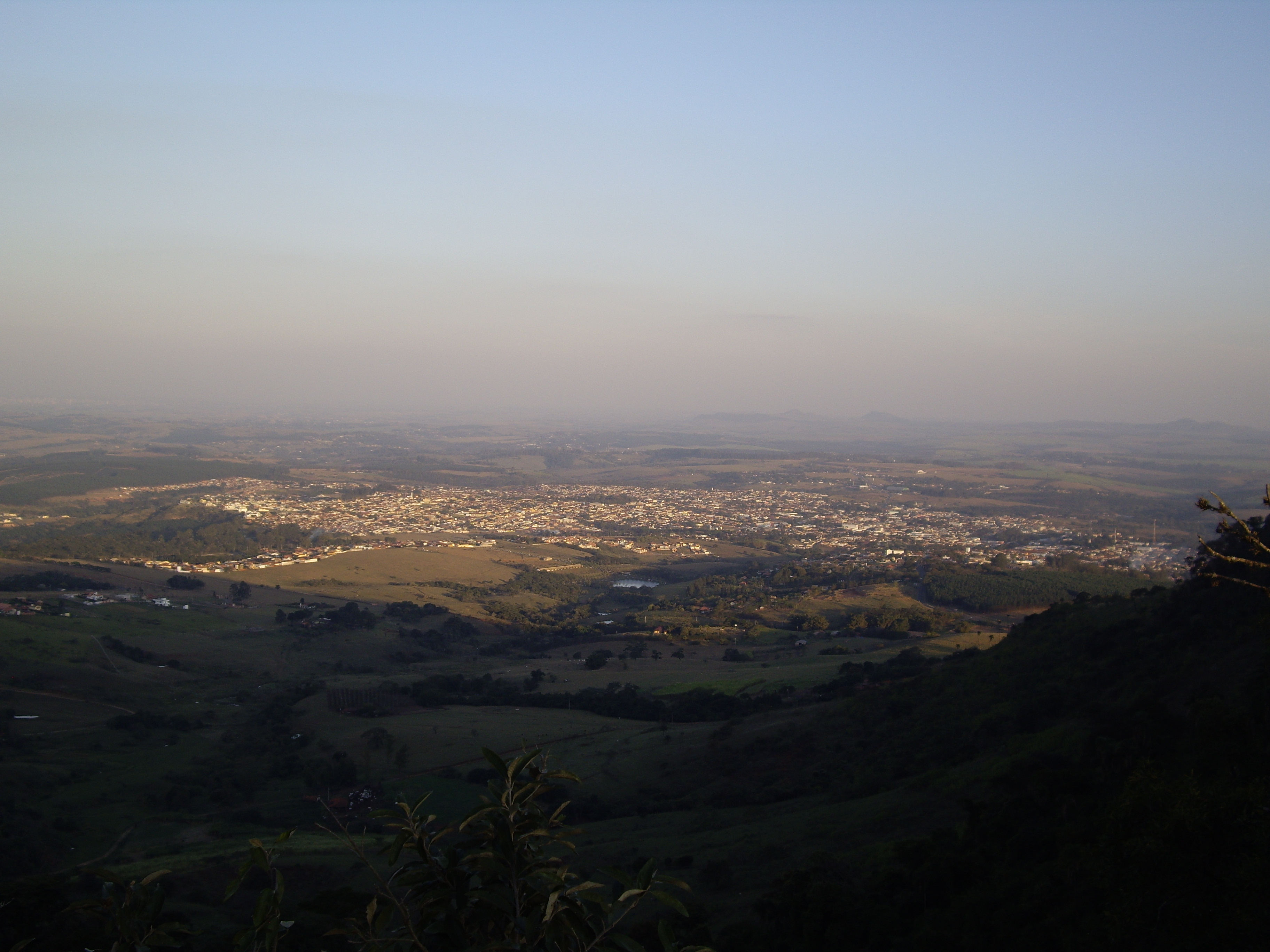 Panorama of the city of São Pedro, state of São Paulo, Brazil.